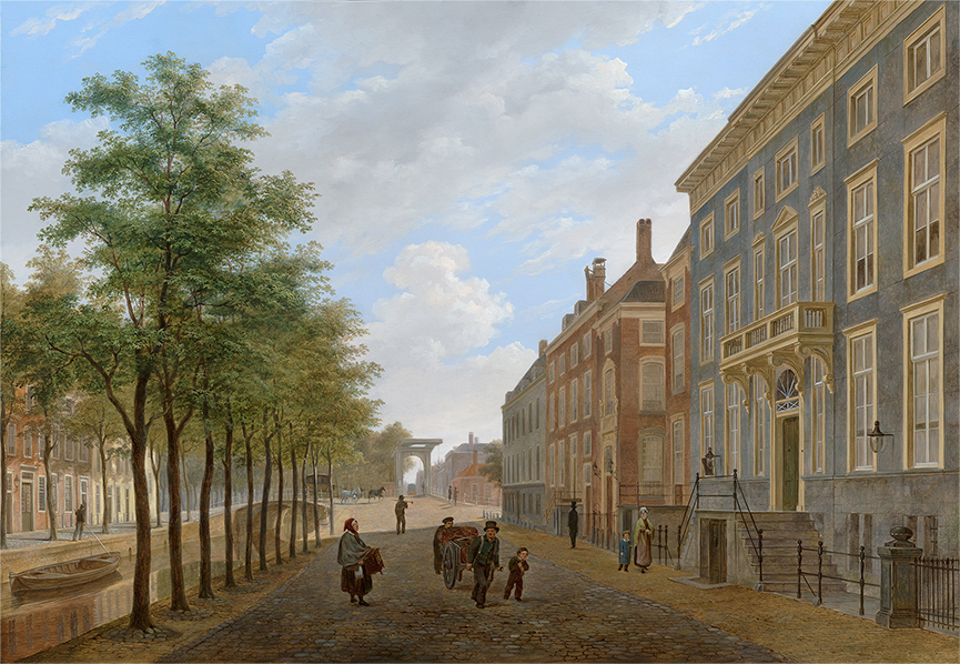 The Hague, The Herengracht in the direction of the Bezuidenhout oil on panel 51 x 73 cm circa 1830